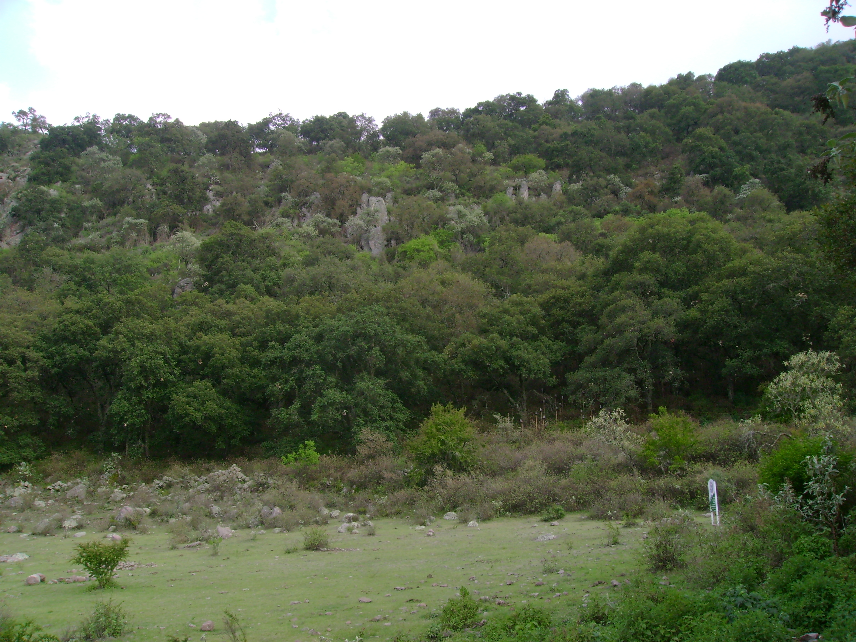 General view of the common areas of theJoya La Barreta Park — Municipality of Querétaro, Querétaro state, Mexico.